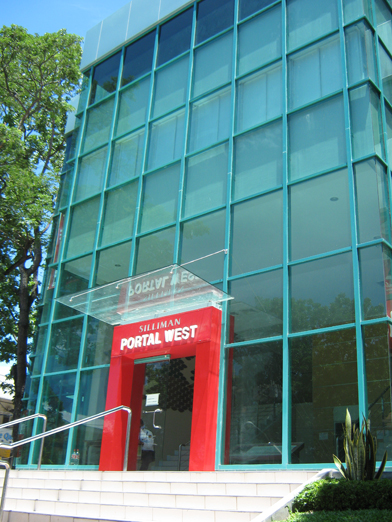 Portal West Building